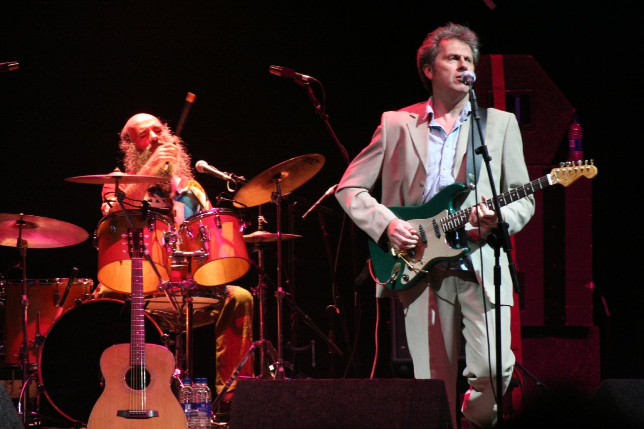 Liam Genockey and Ken Nicol at Fairport's Cropredy Convention 2006